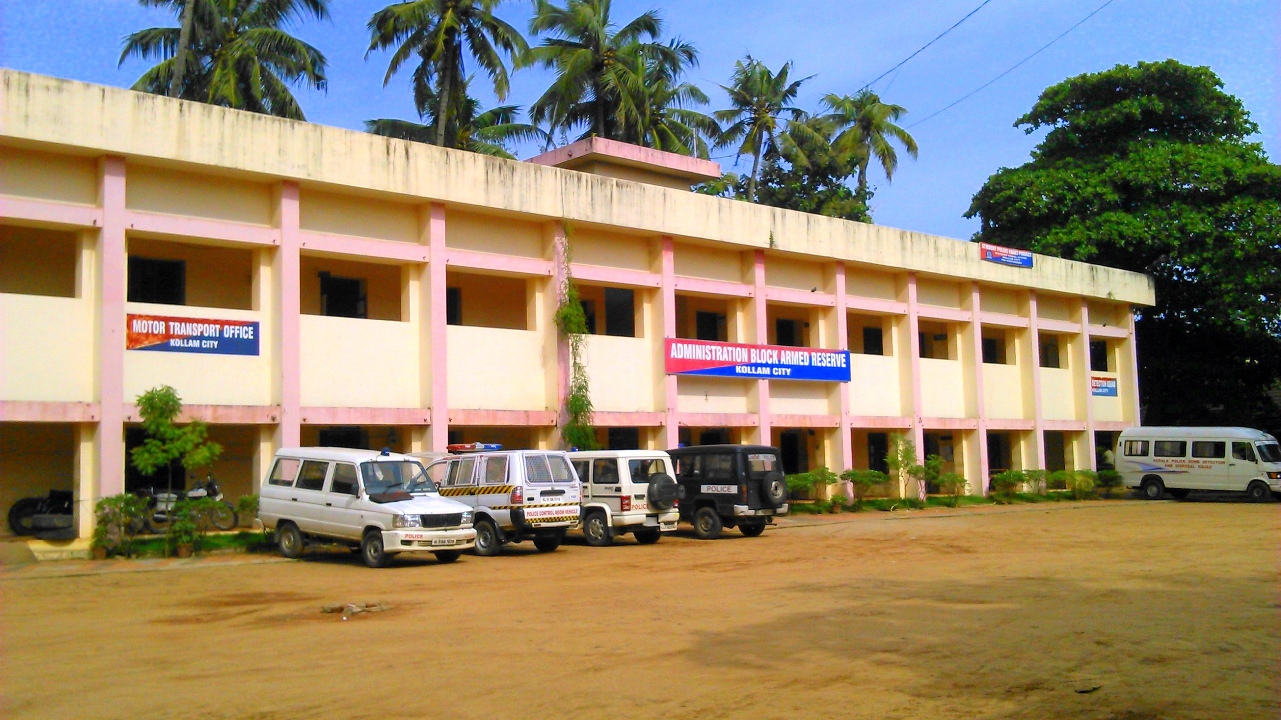 Armed Reserve Police Camp in Kollam is situated just opposite to the municipal corporation building